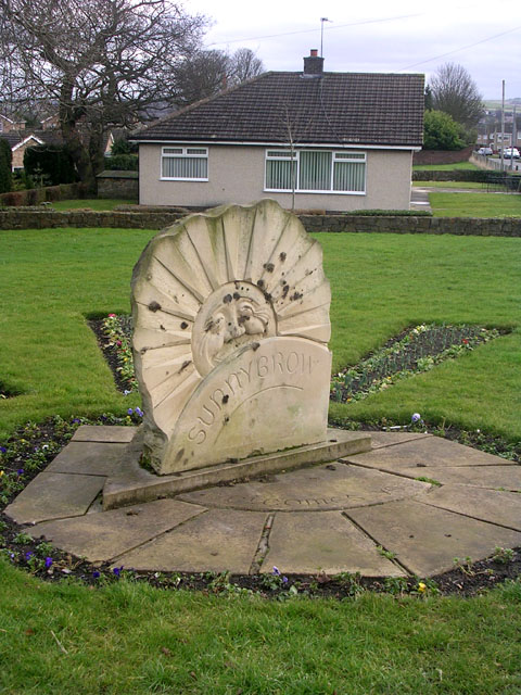 "Sunnybrow welcomes you" An attractive and amusing village sign. Pity it's been splattered with mud!